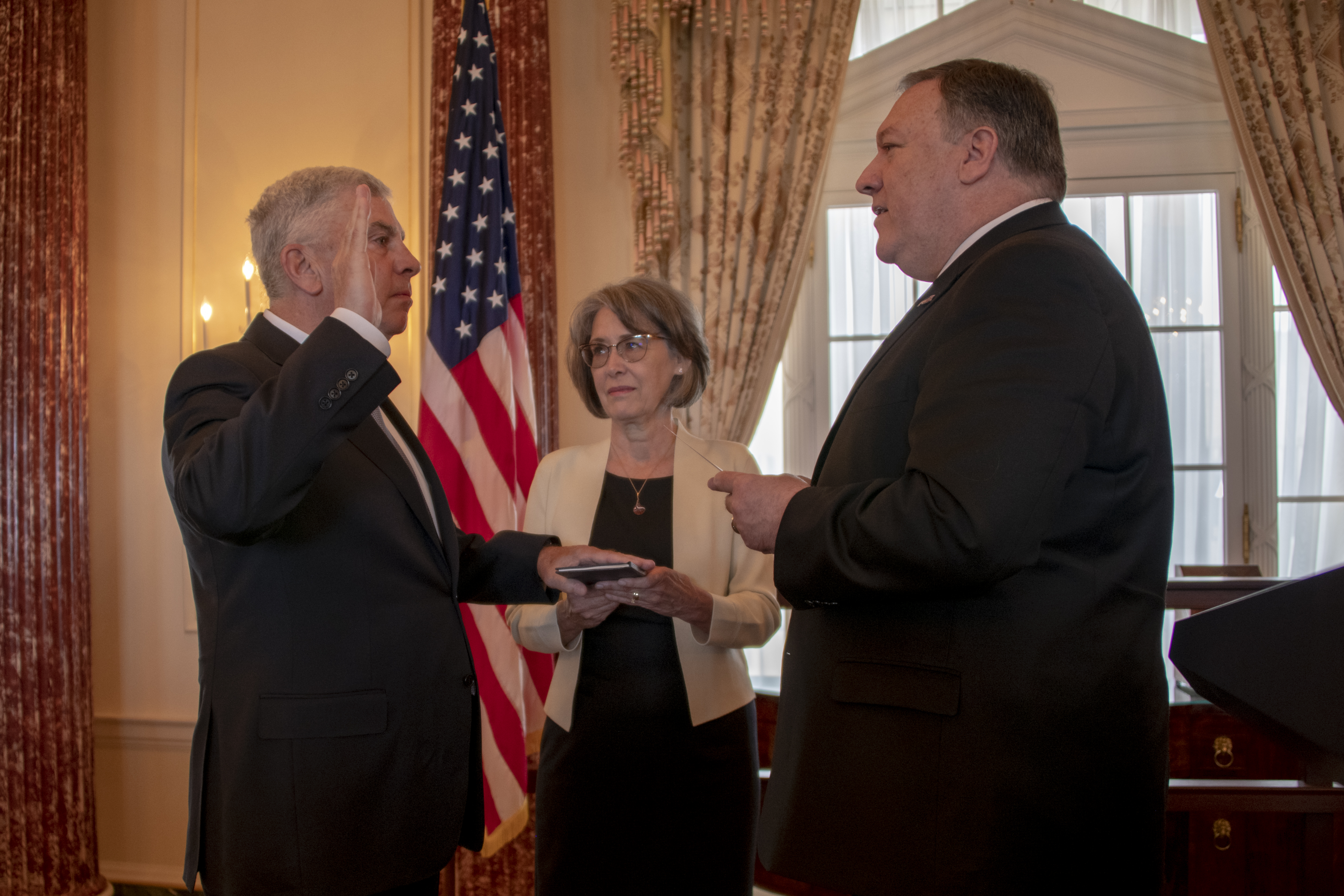 U.S. Secretary of State Michael R. Pompeo officiates the swearing-in ceremony for the United States Ambassador to Saudi Arabia John P. Abizaid at the U.S. Department of State in Washington, D.C., on April 20, 2019. [State Department photo by Ron Przysucha/ Public Domain]